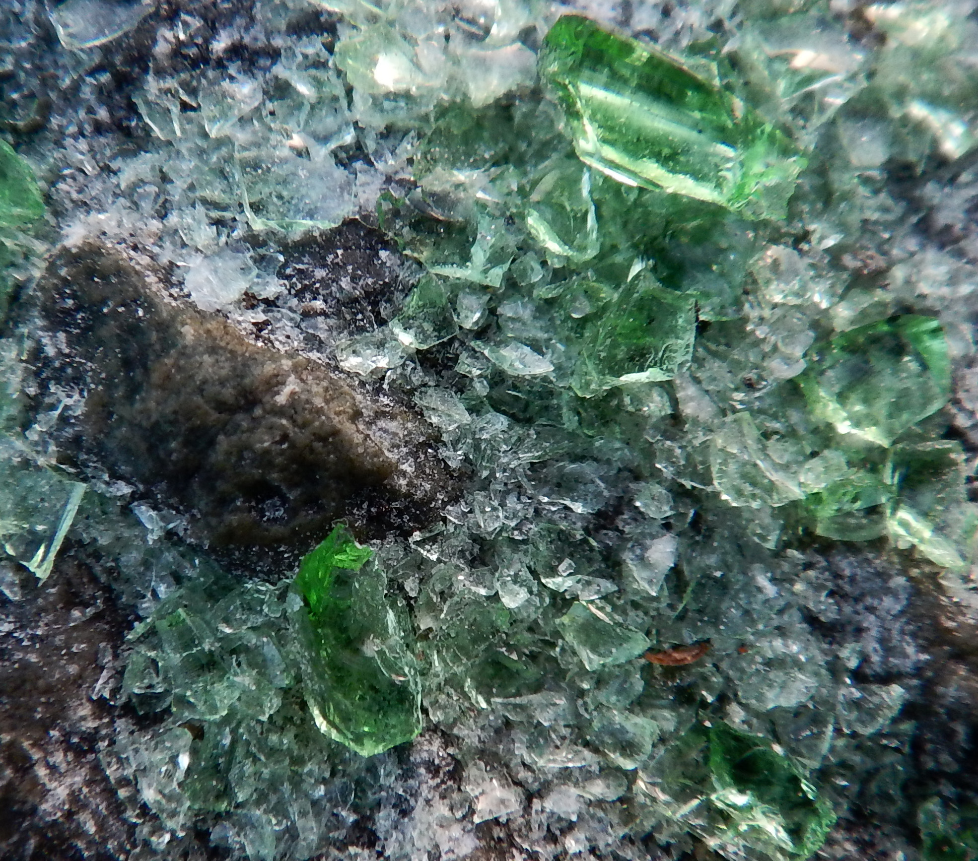 Example of hazardous waste in dispersed quantities. Broken glass (here, it is a bottle of beer crushed by a bus, on an urban road in front of a bus shelter). Questions for ecotoxicology: What happens to these tiny pieces of glass very sharp when they are washed away by rain into rivers? What becomes after being carried by the wind? They are dangerous? and how long? when they come in tons of dust collected by municipal sweepers. Many fragments are carried away by sewers to the treatment plant or grease recovery systems and gravel .. Where are they now? They may sewage sludge containing crushed or broken glass be spread on agricultural fields? What will happen when a worm ingests such fragments, and a pheasant eat what earthworms, etc. .